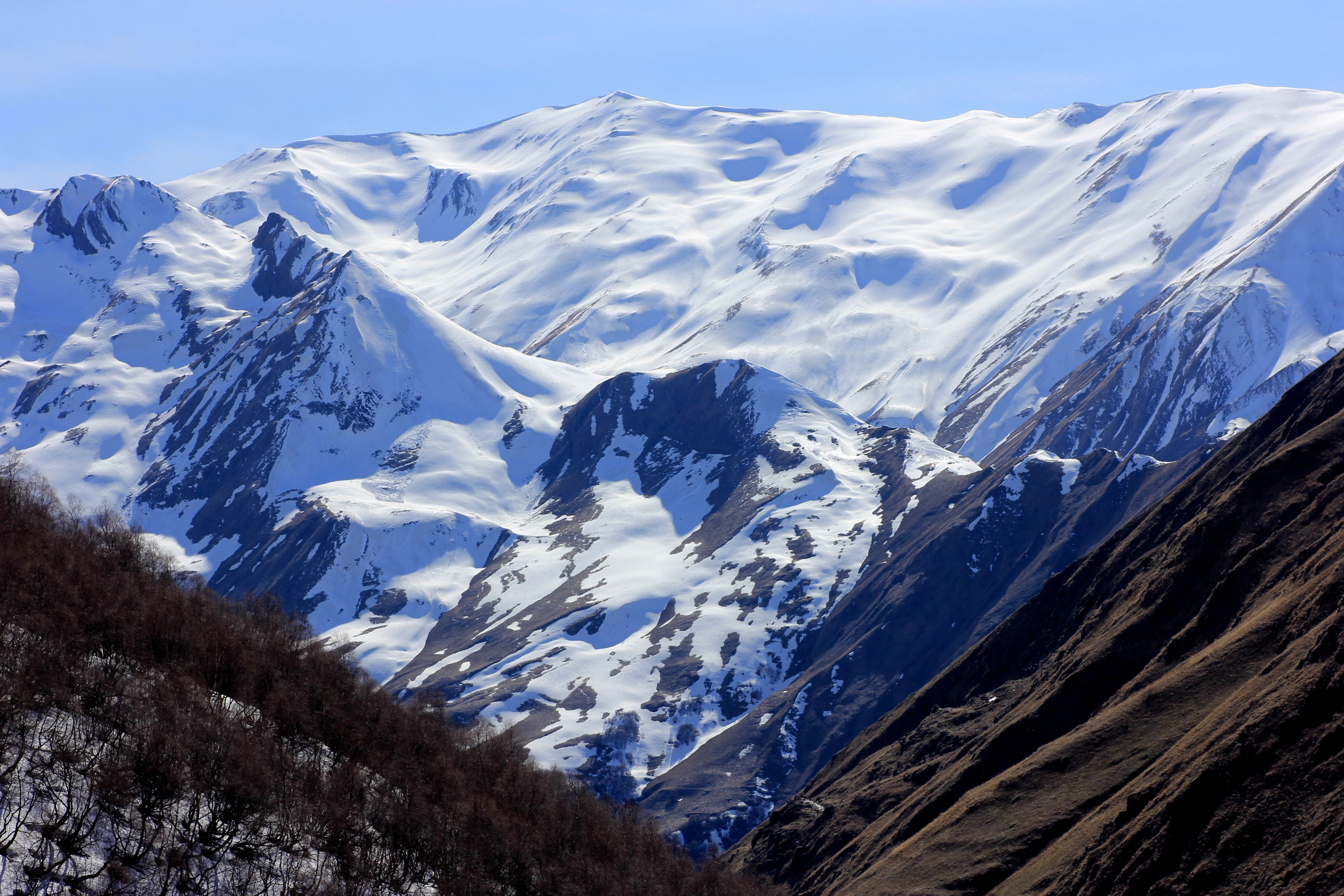 April thaw near Juta. Partly in Kazbegi National Park. 2016-04-17 WDPA ID 555549410